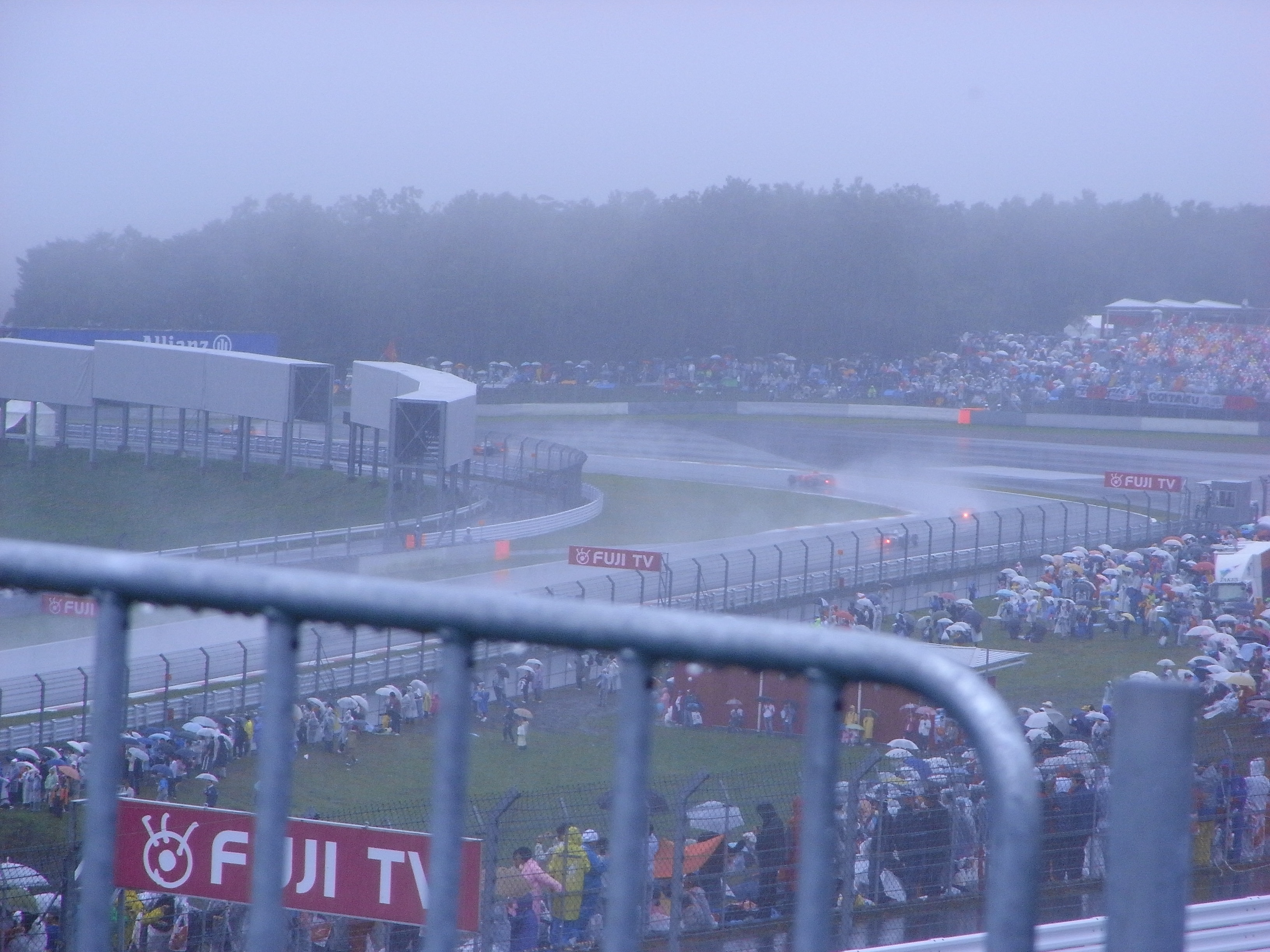 2007 Japanese Grand Prix